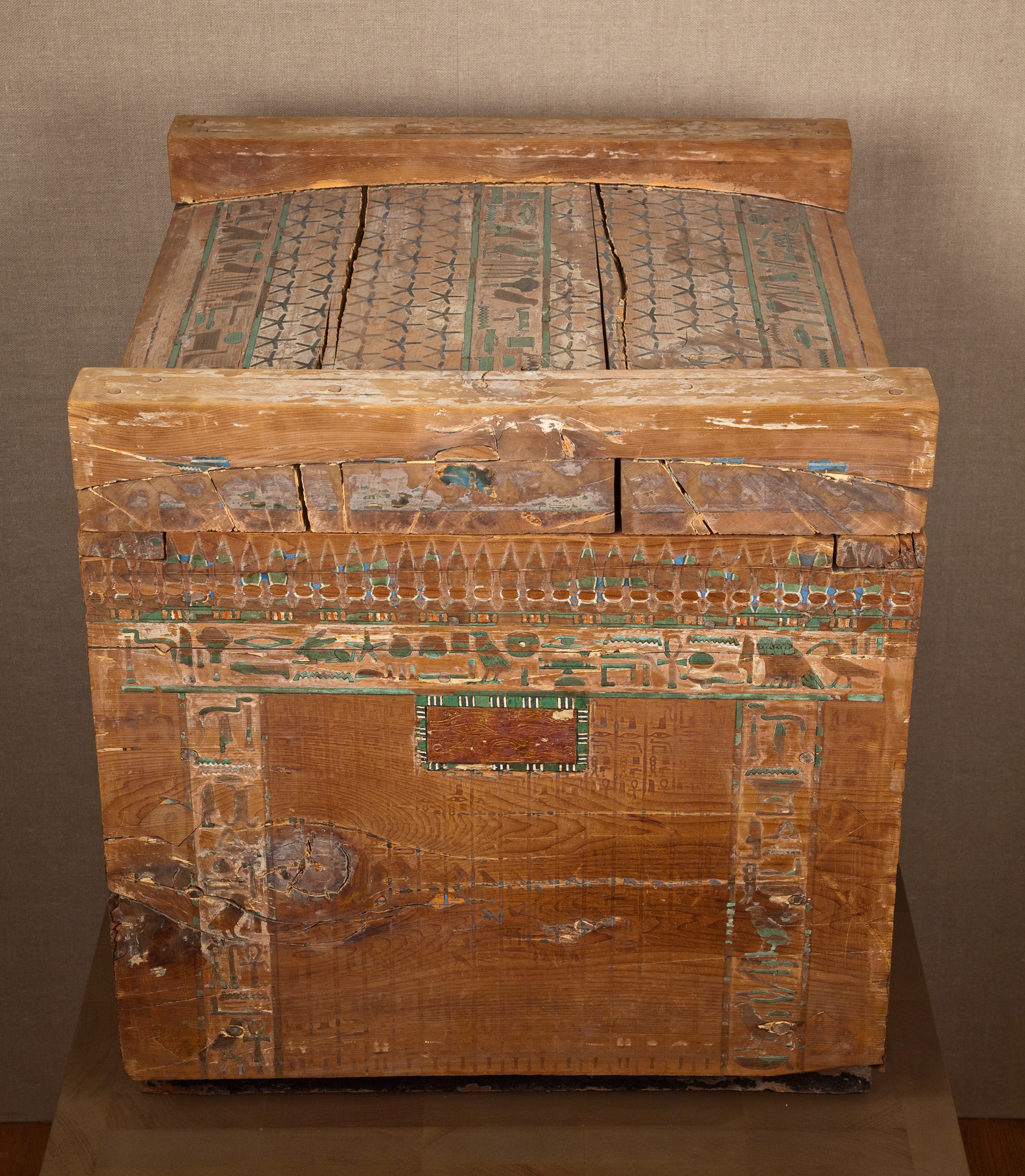 Canopic chest, Hapiankhtifi